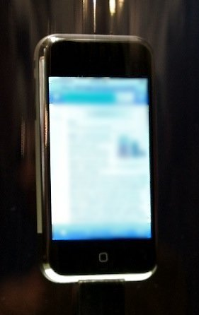 Author: Flickr user lecates Description: Apple iPhone shown with web browser.